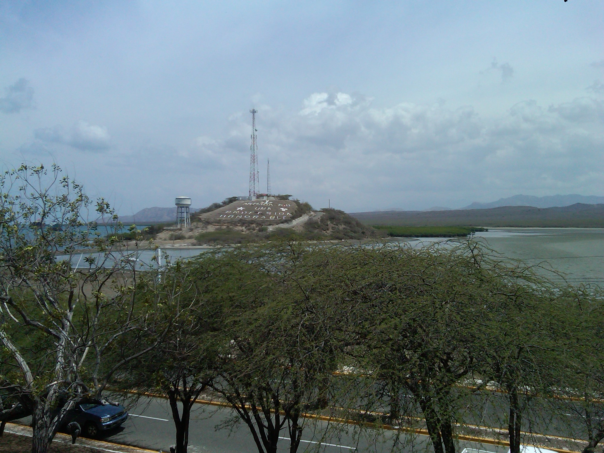 Motto of the Dominican Navy near the Naval Base Las Calderas: "NAVY RD AN HONORABLE PROFESSION"